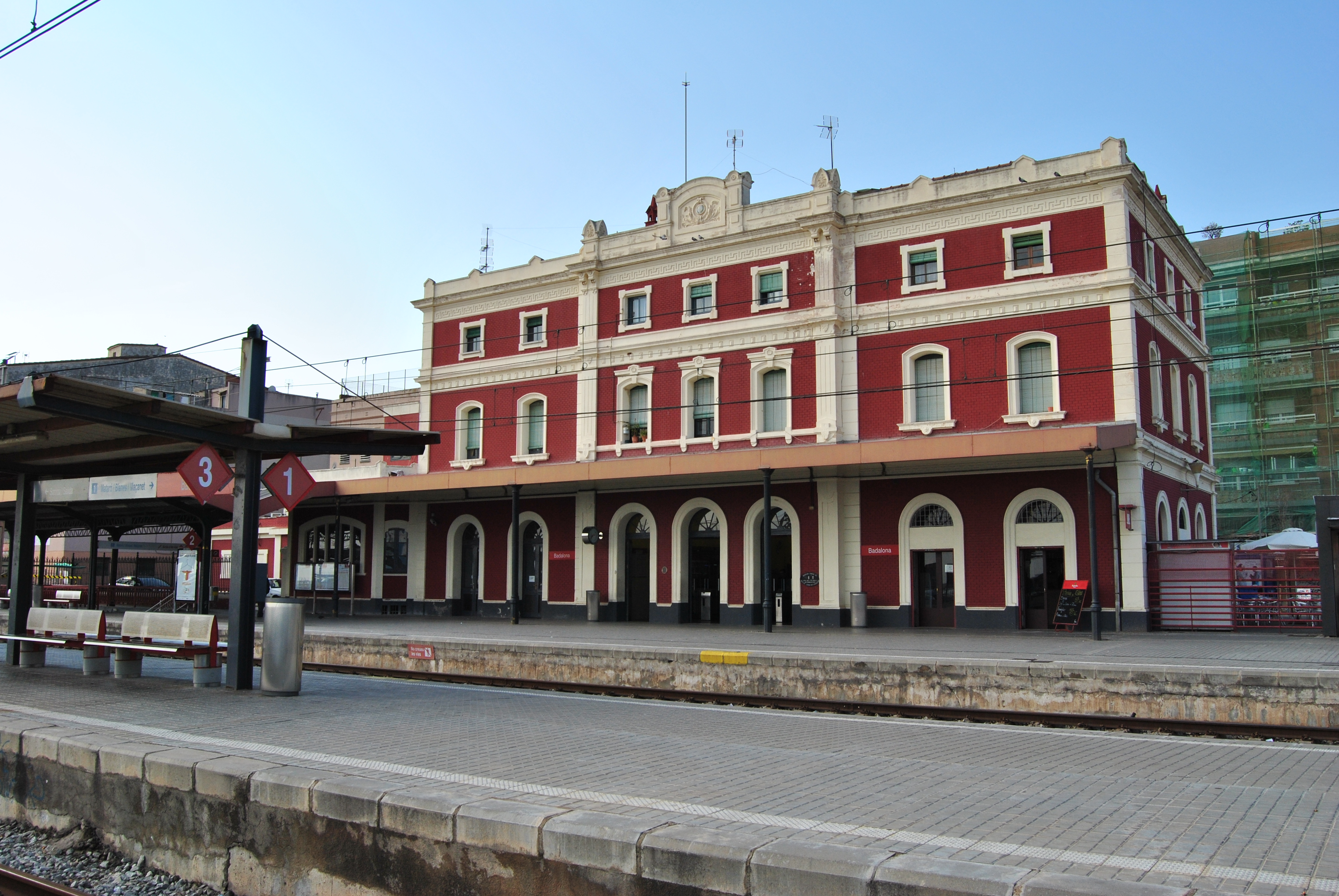 Tren Station in Badalona, Barcelona (Spain)